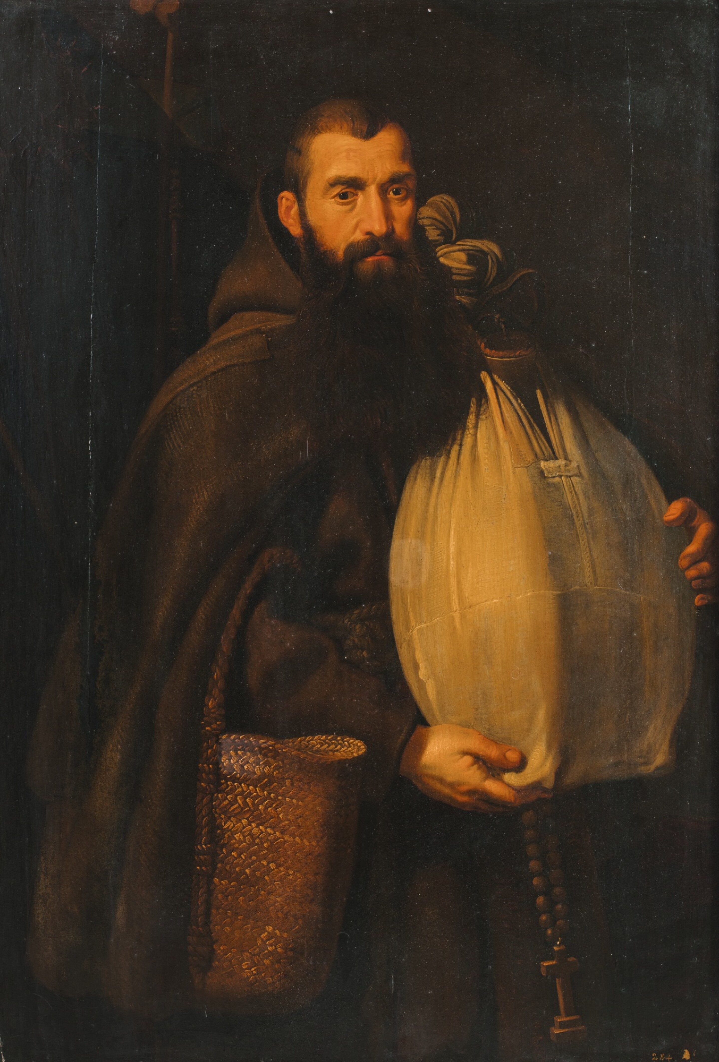 San Felice da Cantalice (St. Felix of Cantalice or Cantalica)